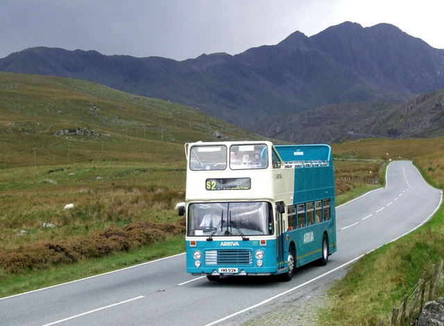 Could be the best open top bus ride in Britain. Like 3049 this was taken from the layby in Nantygwryd Valley looking towards Penygwryd. Unlike 445520 this spectacle was for one weekend only! New to Crosville [ as DVG512, this venerable Bristol VR is the last survivor of its kind in a former Crosville depot. For a few days at the end of September 2006 it performed the S2 Snowdon Sherpa service ferrying walkers, cyclists and other tourists between Betws y Coed and Pen y Pass. This appears to be the only time an open top VR was used on this service. For this photographer, here was the highlight of the Crosville centenary year.